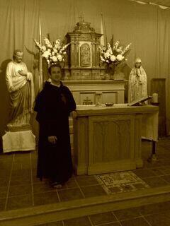 Holy Paraclete Old Catholic Church Fr Jakob Lazarus